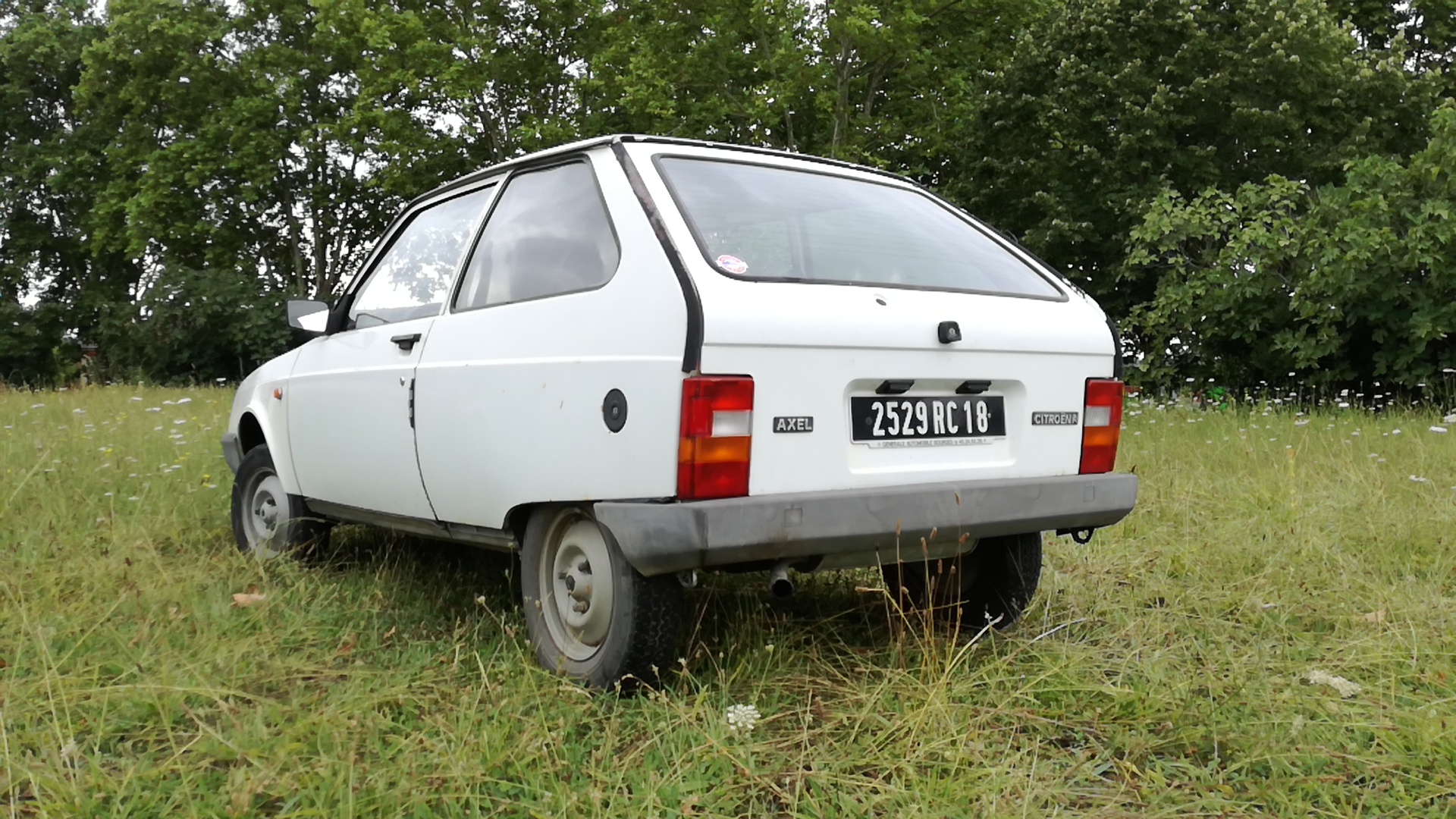 Rear view of a Citroën Axel